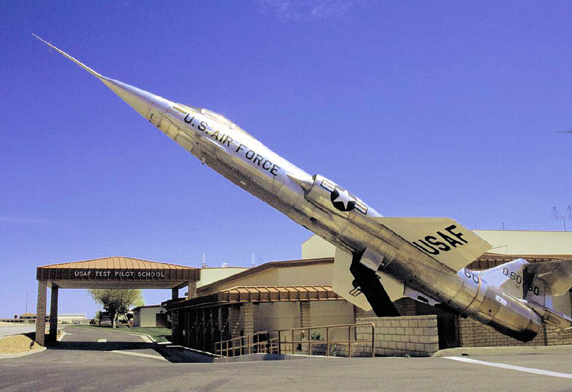 HQ USAF Test Pilot School - Edwards AFB California